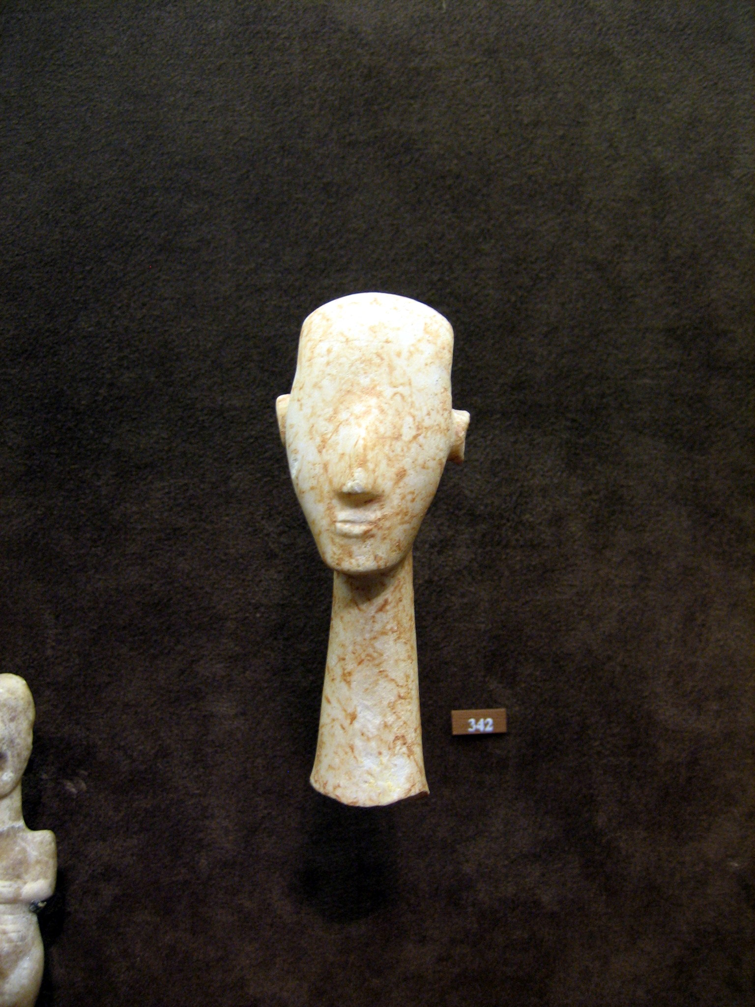 Head and neck of a figurine, Cycladic culture, Plastiras variety , White marble, motted ochre, Height: 10.4 cm, Goulandris Collection, Athens, Greece, Inventary # 342